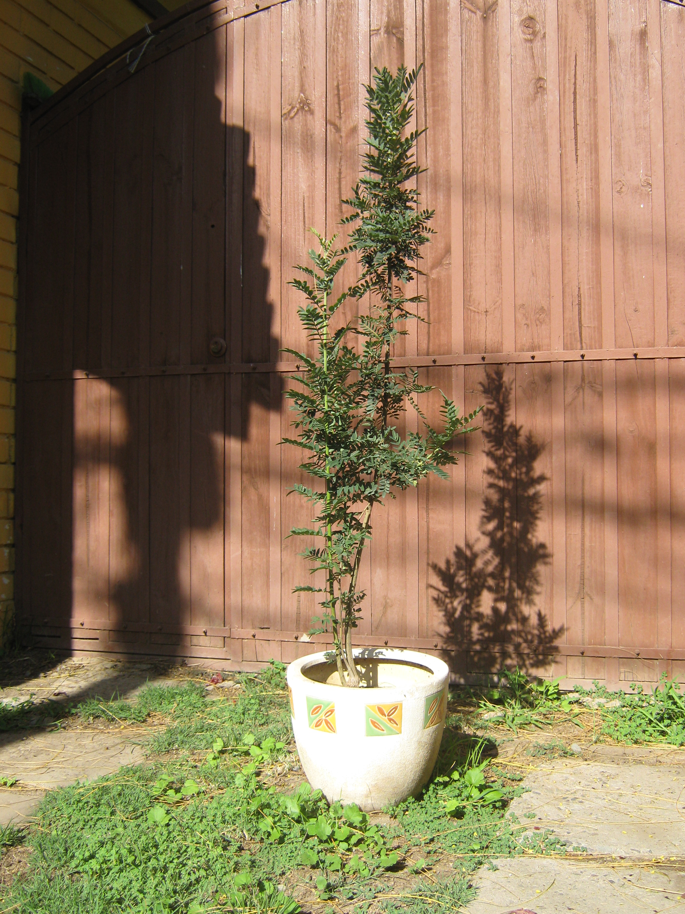 Sophora macrocarpa vegetative